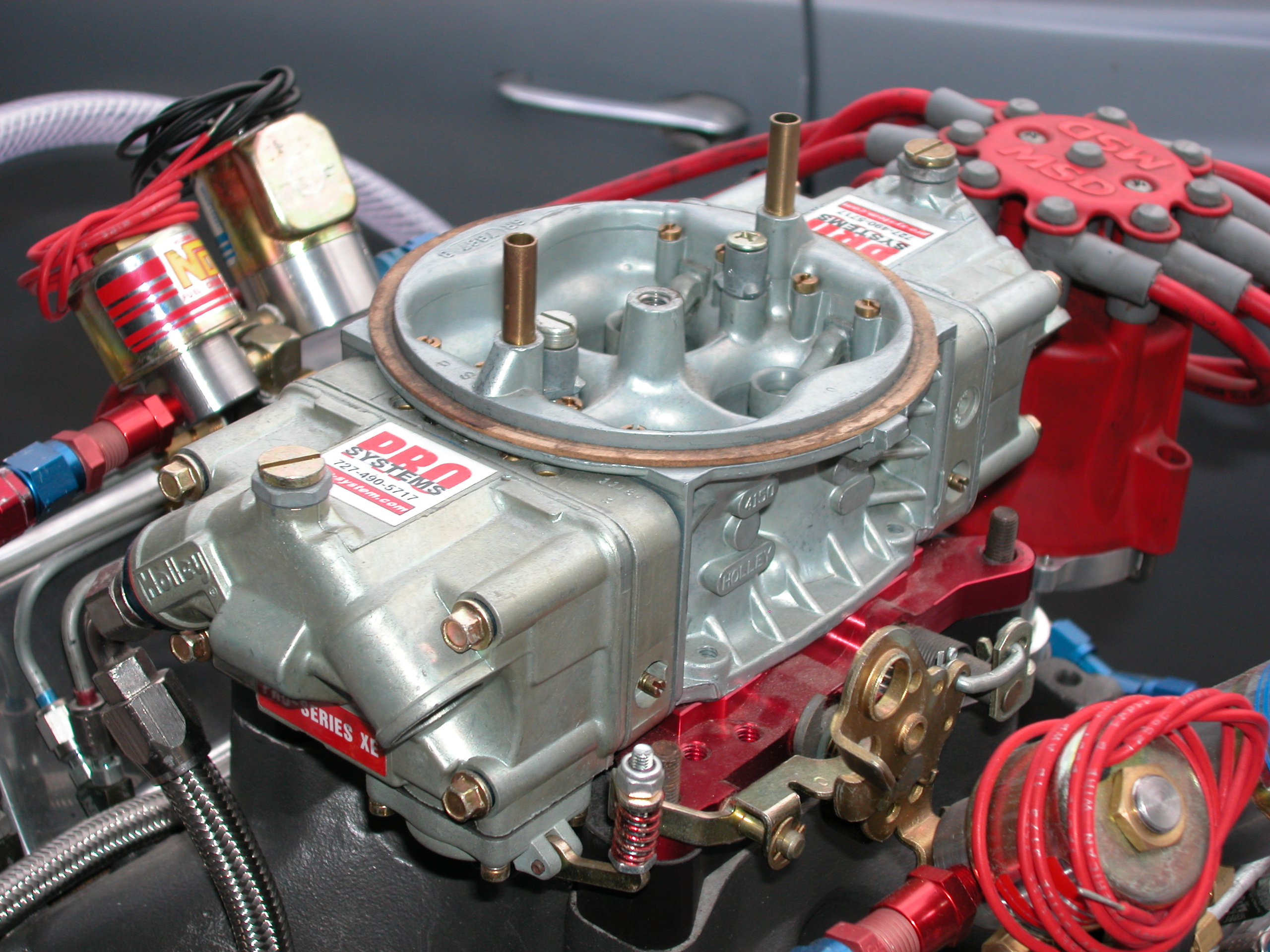 A high performance 4-barrel carburetor. Camera used was a Nikon Coolpix 5000.